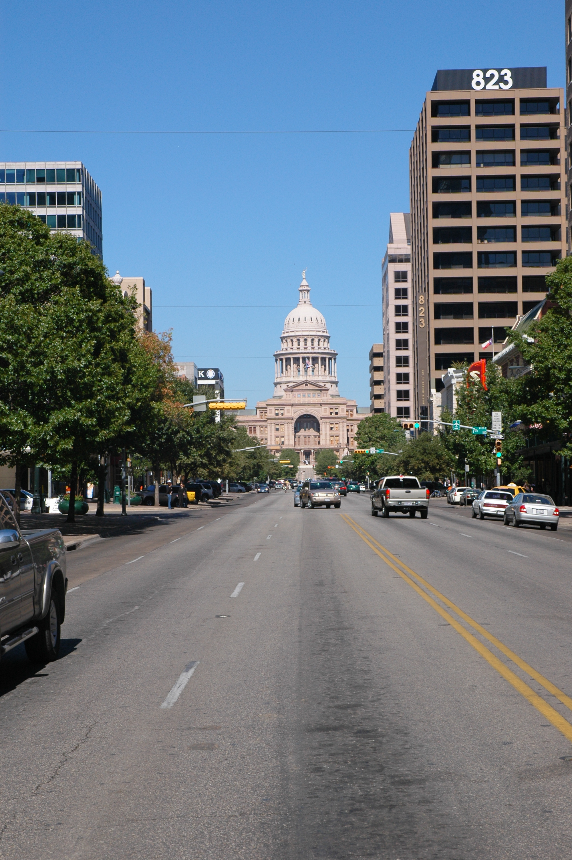 View of Congress Ave. in downtown Austin from 6th Street. Taken by Leon Fu